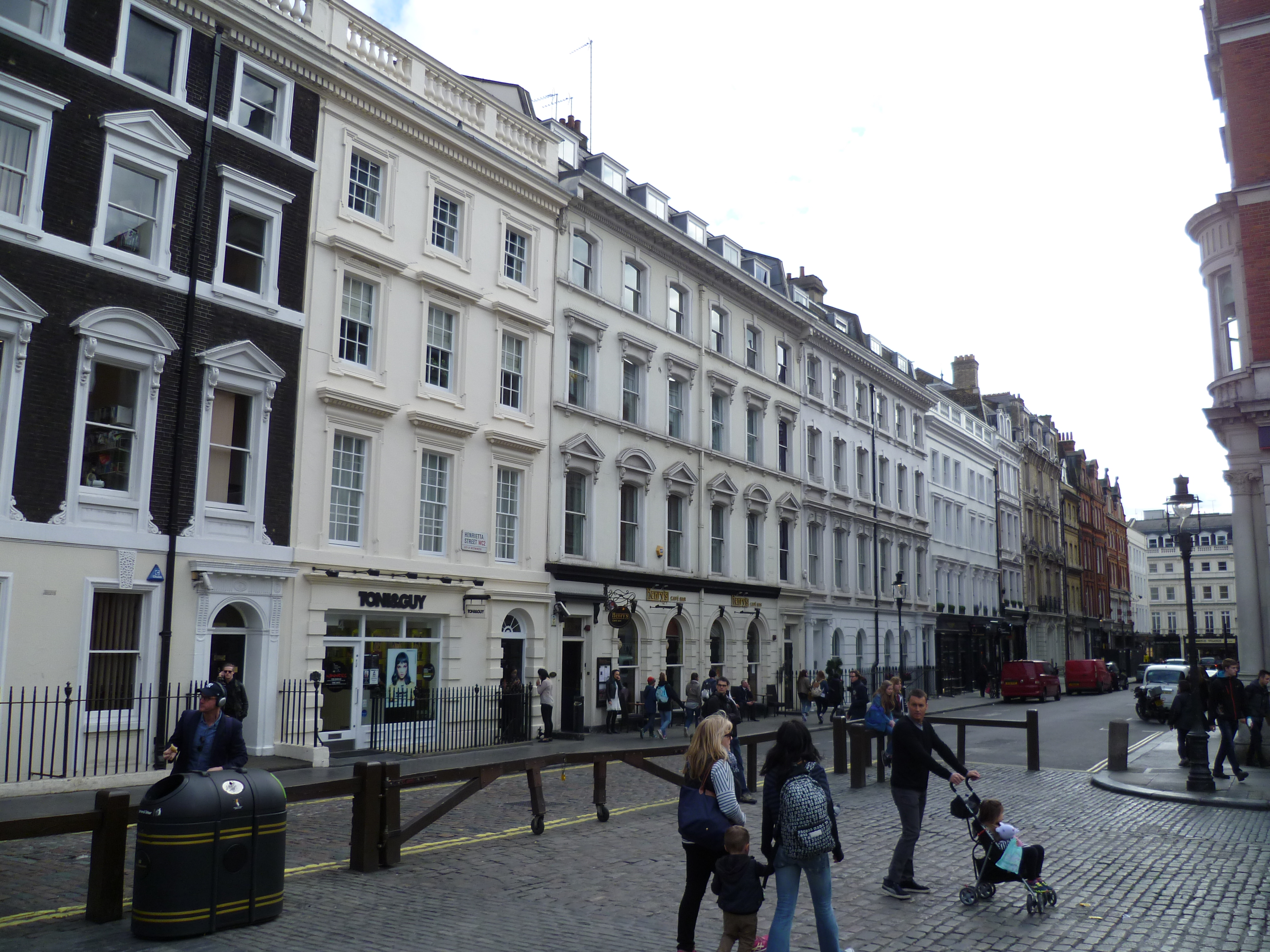 London